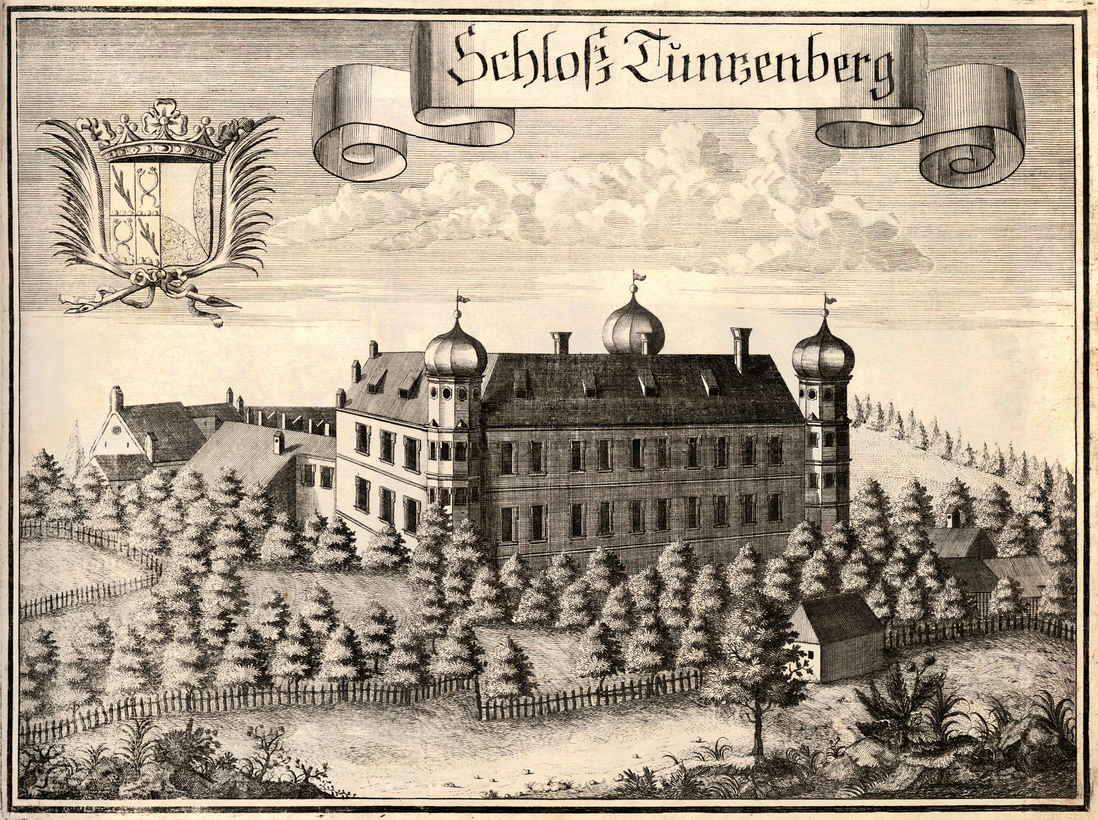 Castle of Tunzenberg, near Dingolfing, Lower Bavaria